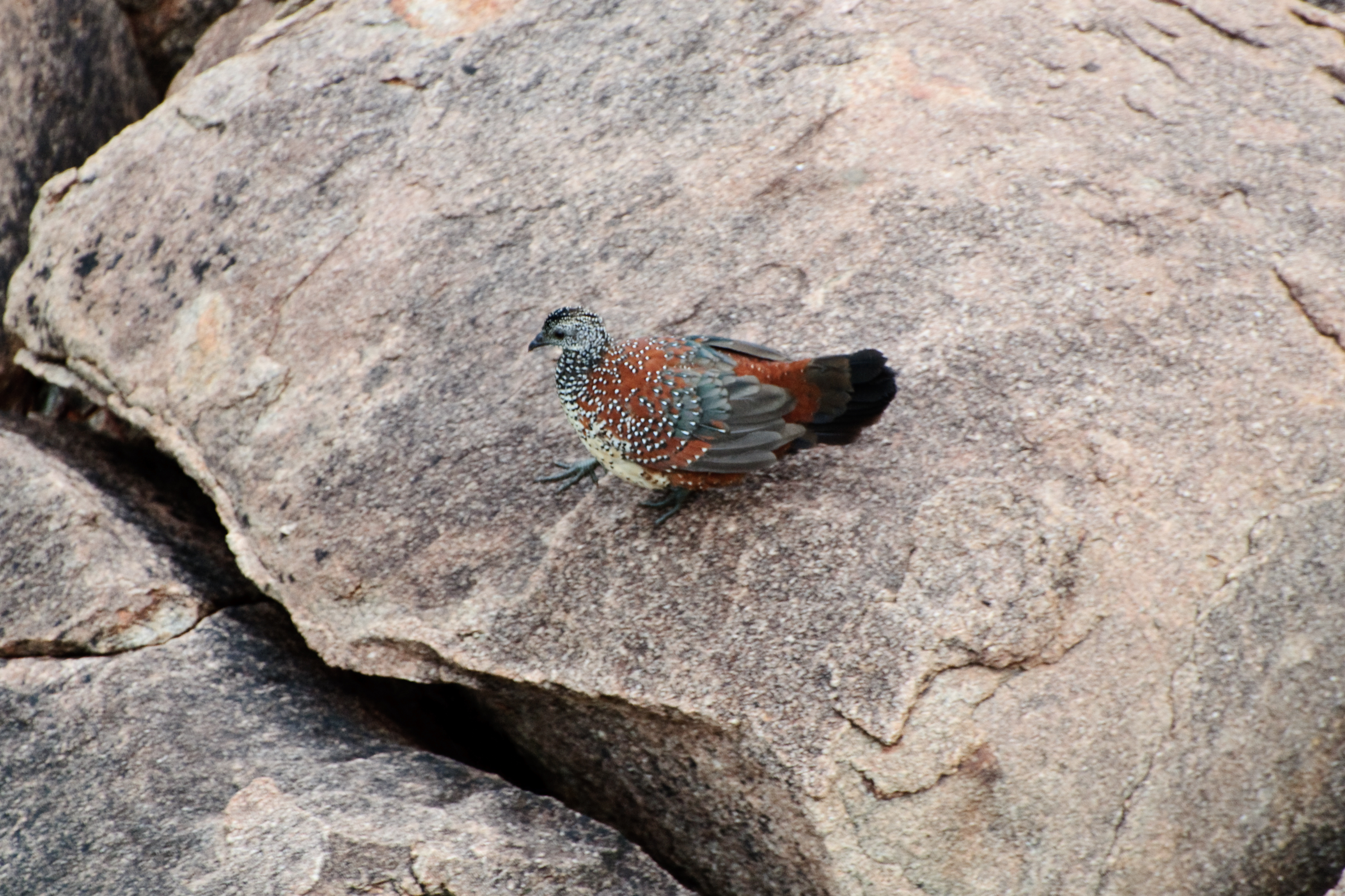 This is a photograph of the bird Painted Spurfowl (Galloperdix lunulata) taken at the Daroji Sloth Bear Sanctuary near Hampi, Karnataka, India